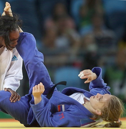 2016 Summer Olympics Judo, August 9